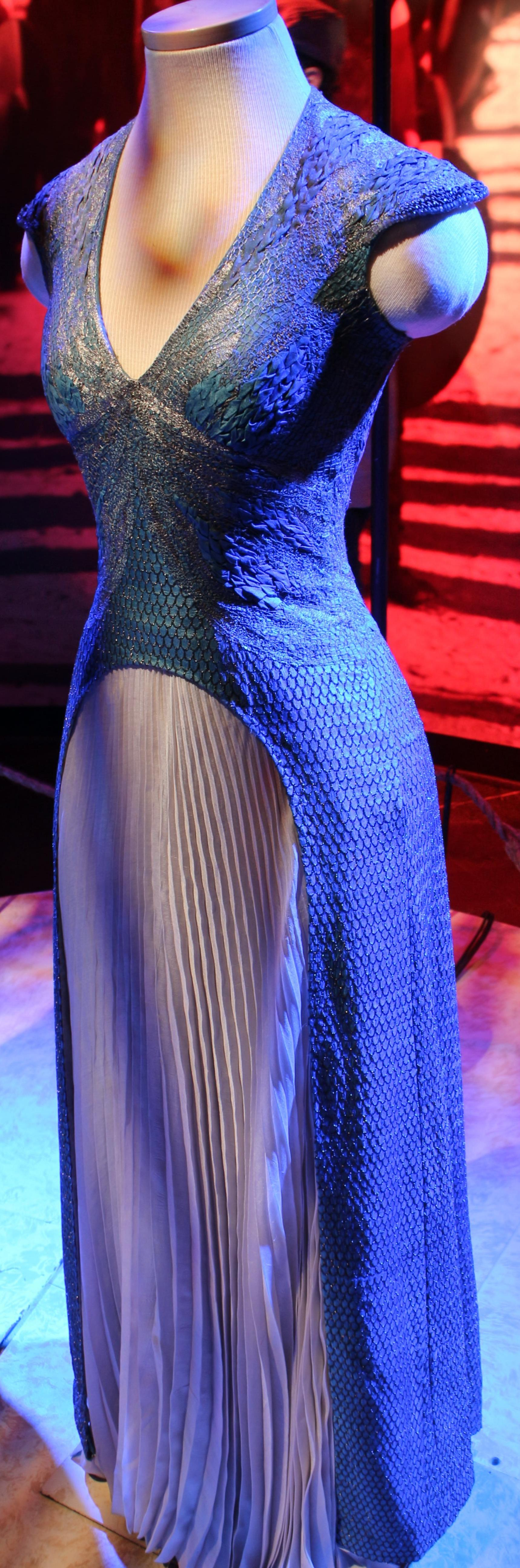 Dress worn by the character Daenerys Targaryen in the TV series Game of Thrones, exhibited by HBO in Oslo in 2014.